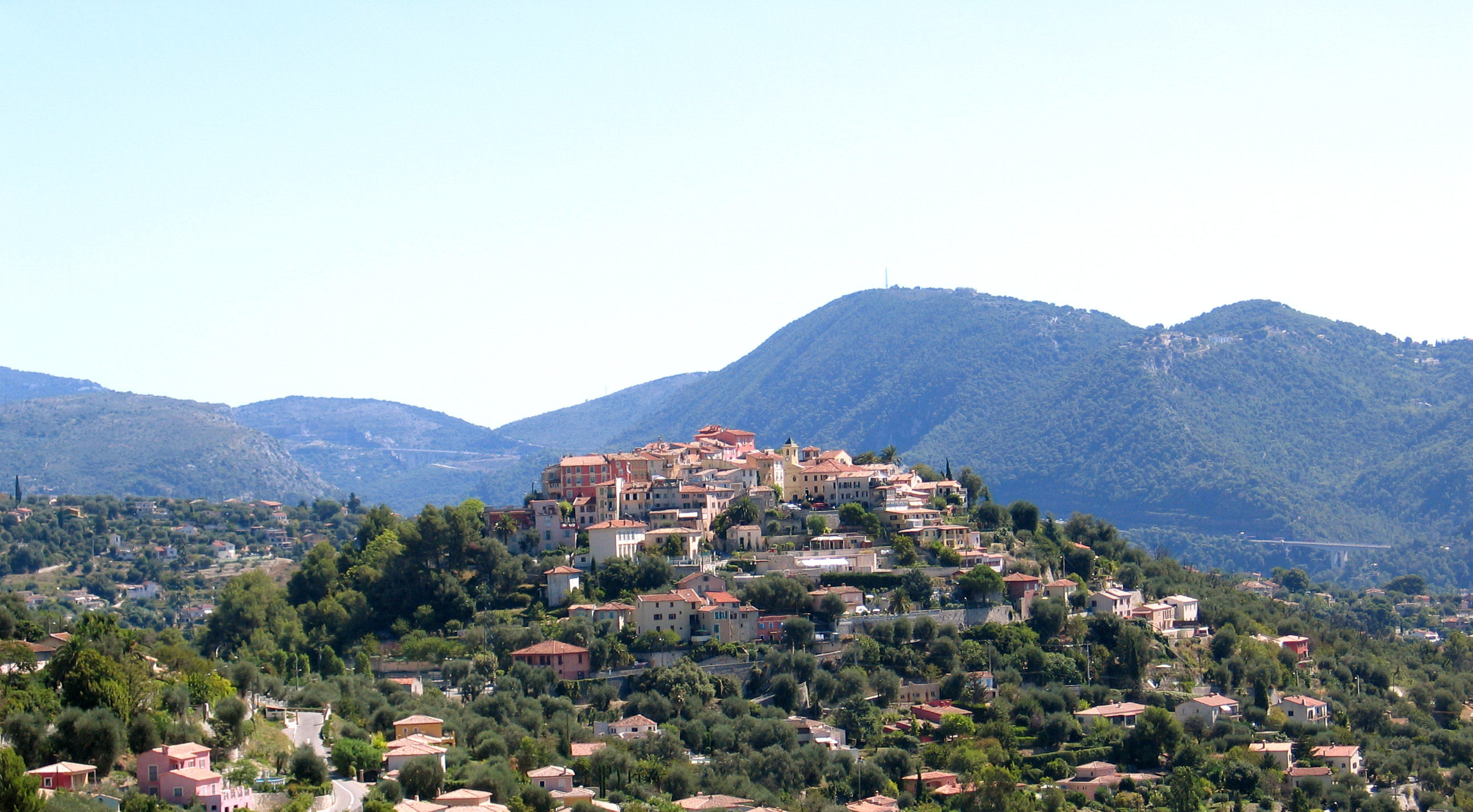 Falicon village, Alpes-Maritimes, France